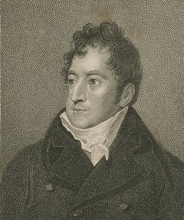 George Coleman the younger esqr. [graphic] / engraved by Ridley & Blood from an original by Drummond. Published by J. Asperne, Feby. 1st, 1809. Imprint